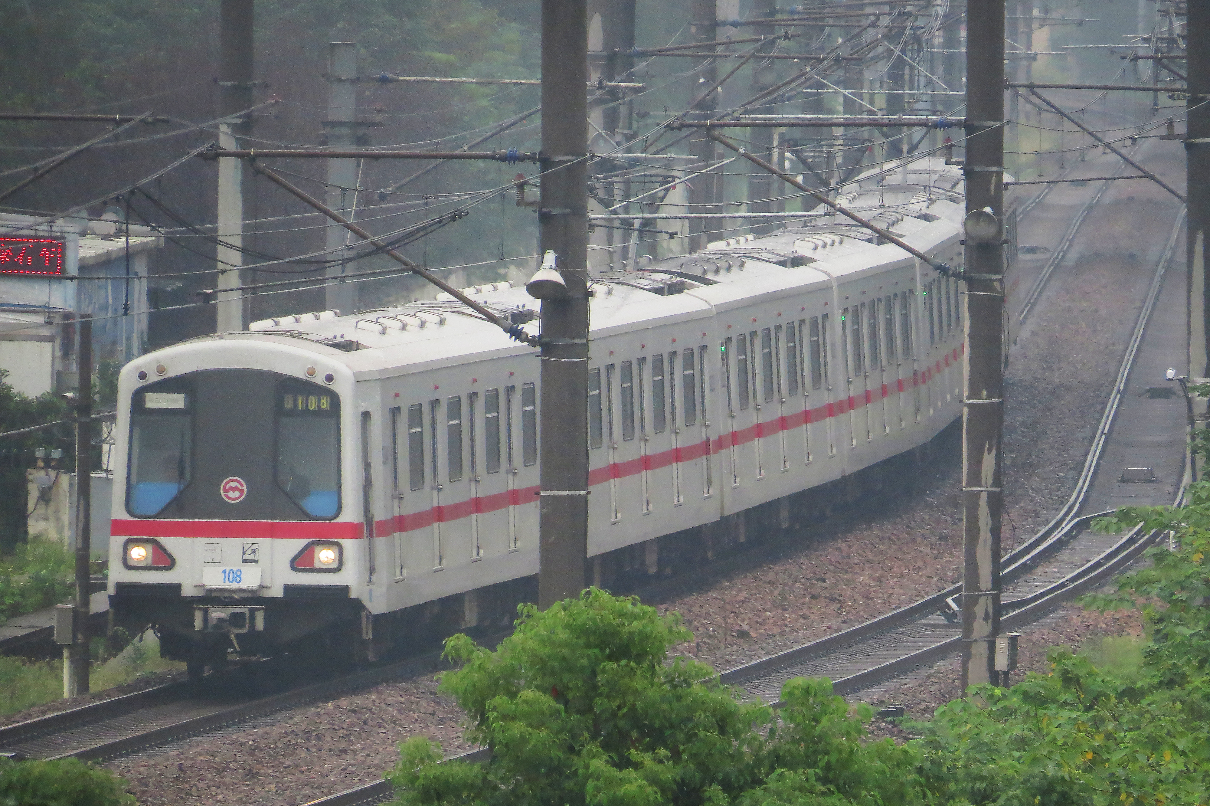 Taken from the entrance bridge.